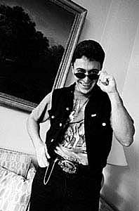 Maxim Vengerov